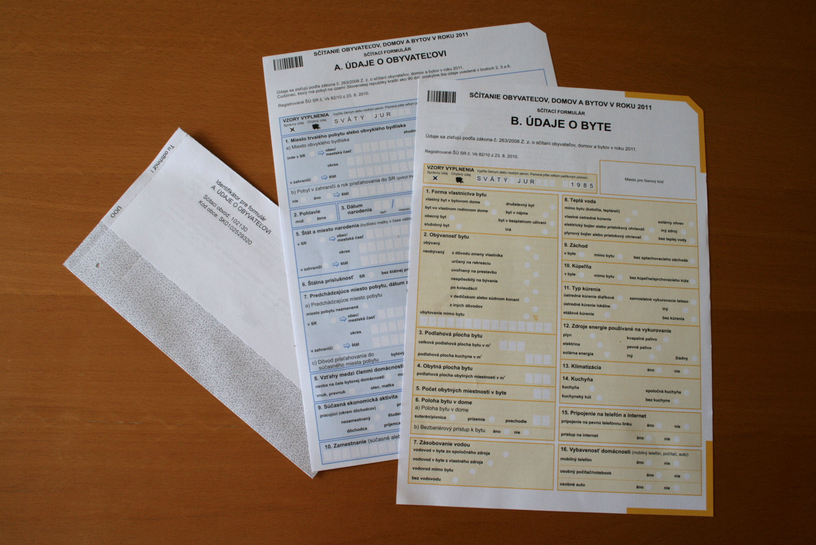 Forms for census 2011, Slovak republic.